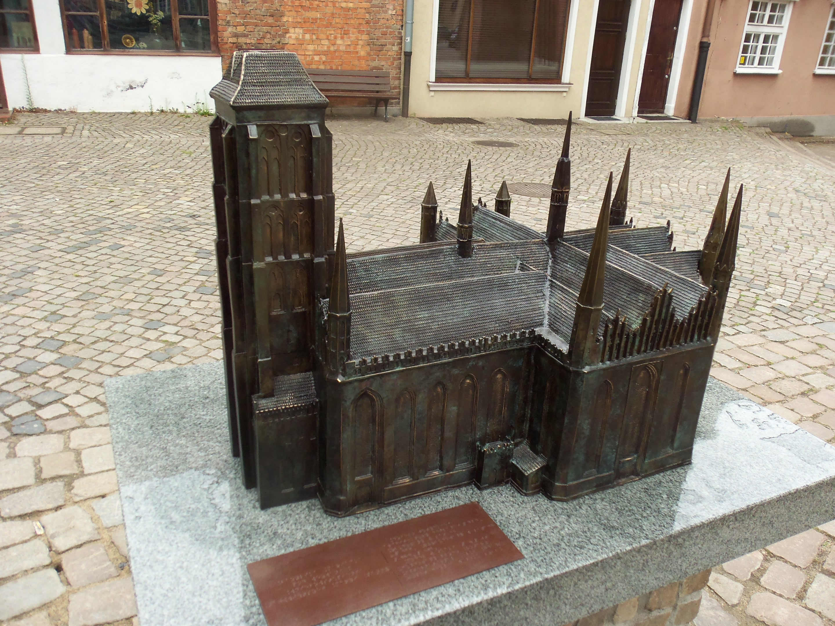 Scale model of the Church of Virgin Mary, Gdansk, Poland